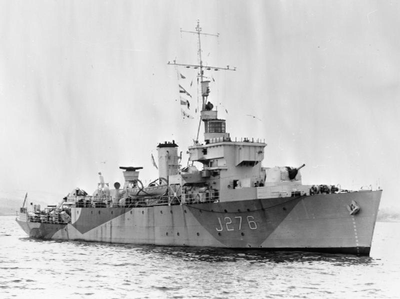 Photograph of British Algerine class minesweeper HMS Lennox.